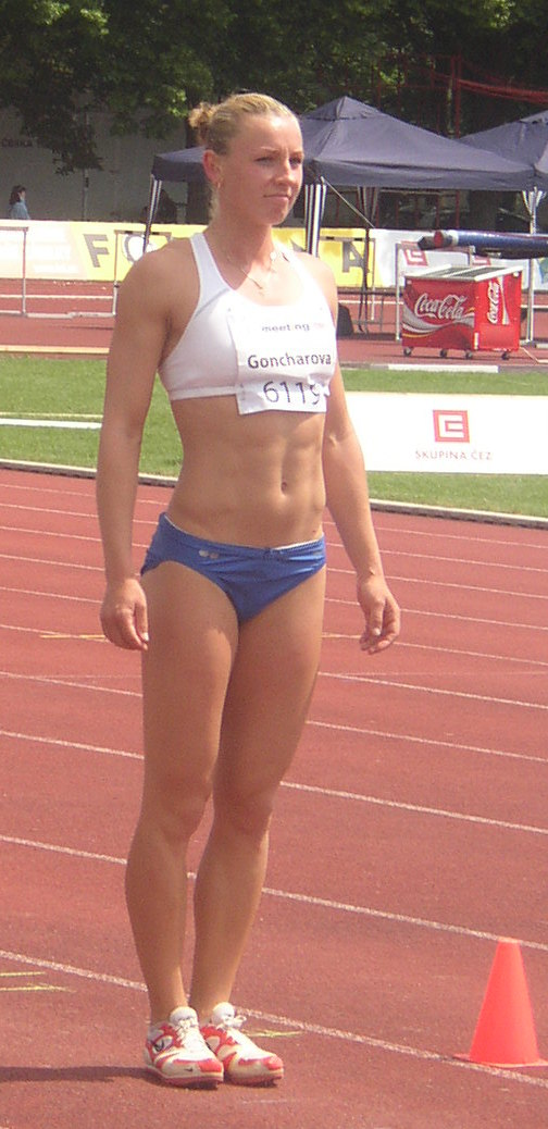 Athlete Marina Goncharova of Russia prepares for her attempt in long jump during women's heptathlon at 4th edition of the TNT - Fortuna Meeting (IAAF World Combined Events Challenge Meeting, Sletiště Stadium, Kladno, Czech Republic, 16 June 2010, 11:54).